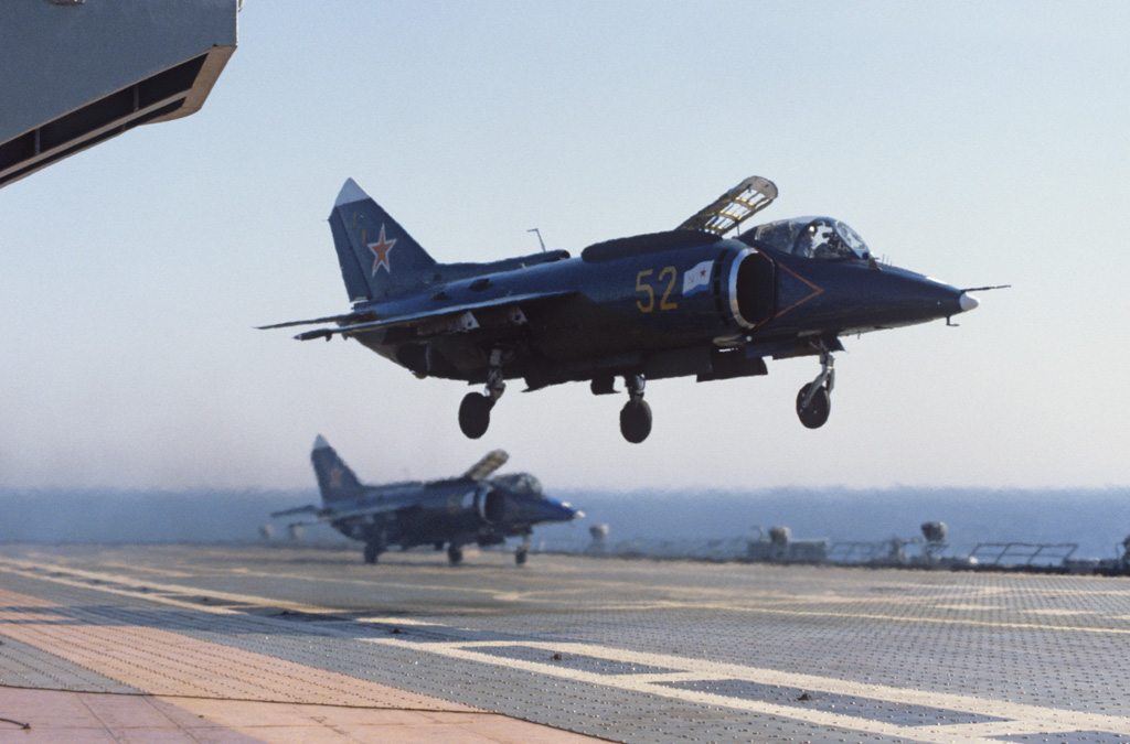 “Yak-38 fighter aircraft”. Yakovlev Yak-38 fighter aircraft of the Novorossiisk heavy aircraft carrying cruiser of the Pacific Fleet.